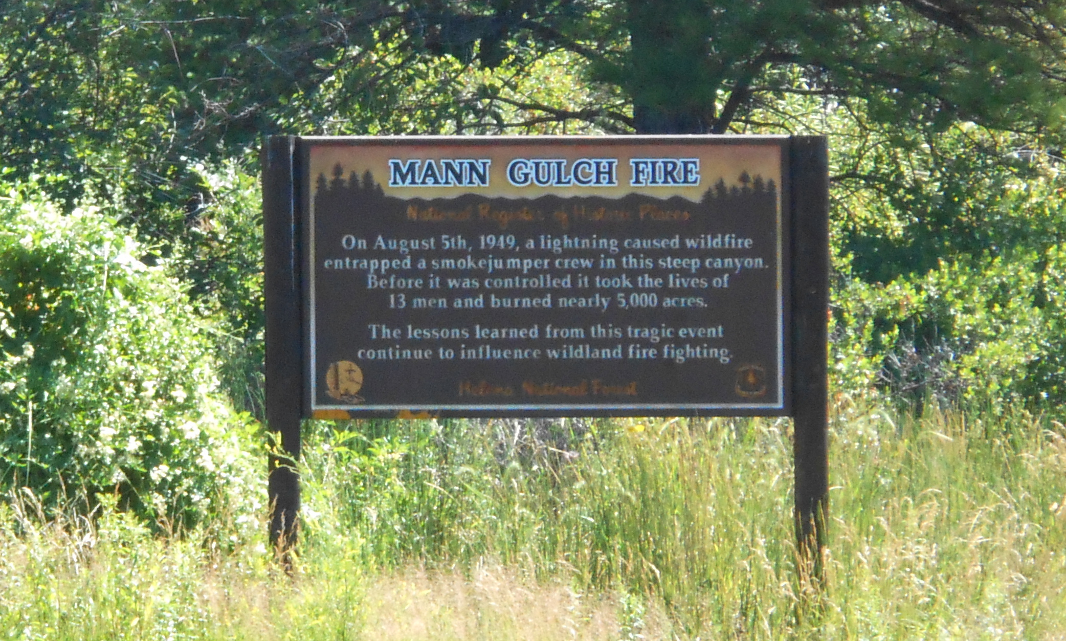 Sign for the Mann Gulch fire, a 1949 wildfire disaster in Mann Gulch on the Missouri River, now in the Gates of the Mountains Wilderness Area of the Helena National Forest. The site is listed on the National Register of Historic Places.